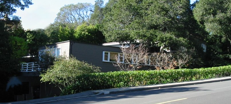 1940-1941 house of Clarence W. W. Mayhew, designed in association with his employee Serge Chermayeff.